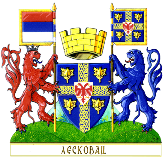 Greater coat of arms of Leskovac